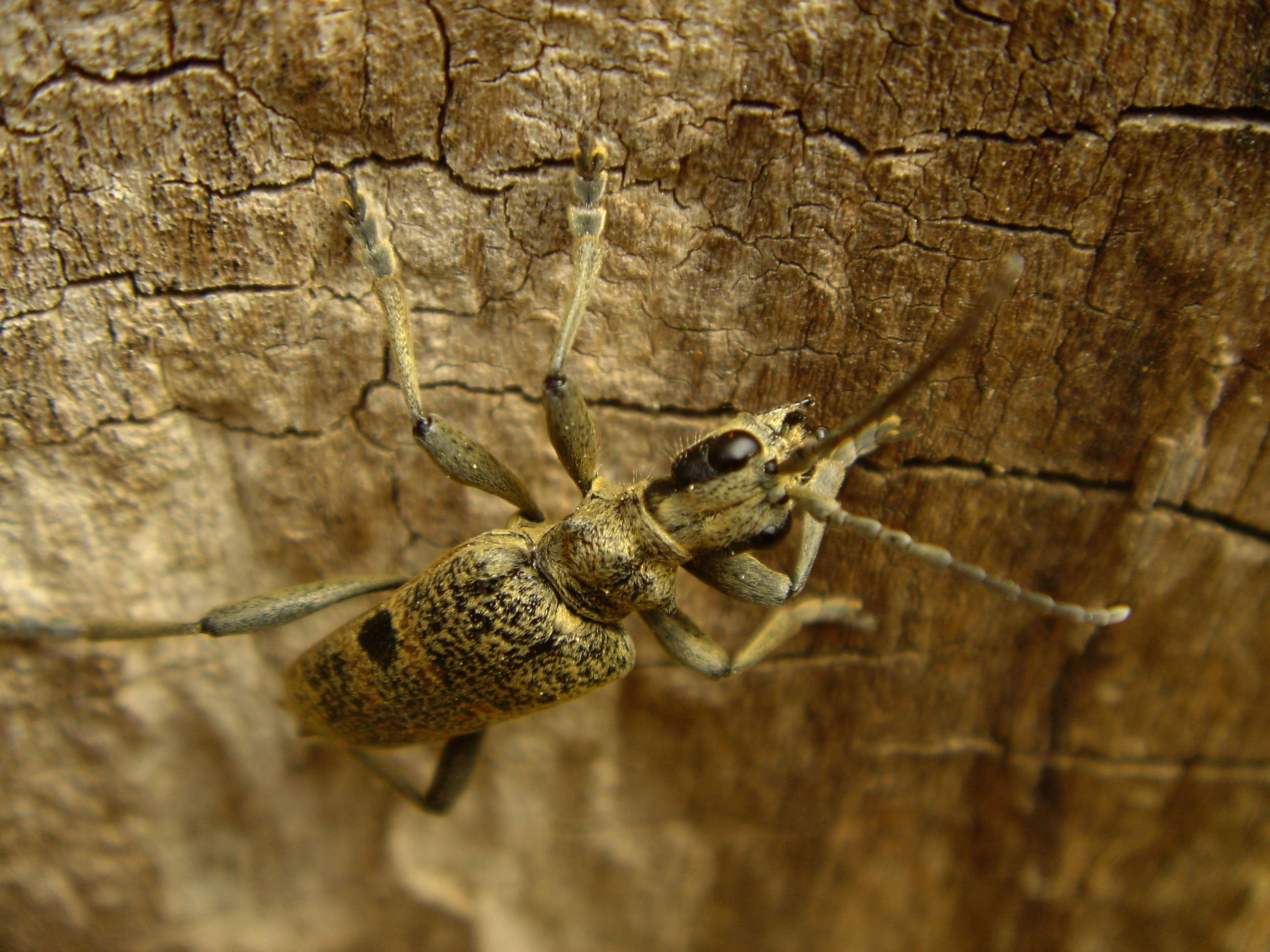 blackspotted pliers support beetle